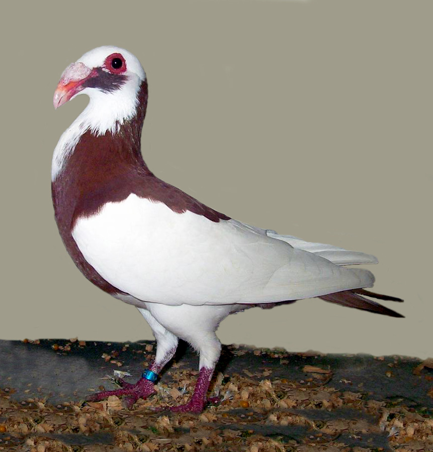 Scandaroon (Red Magpie-Marked)